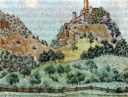 Bezděz castle, Czech republic